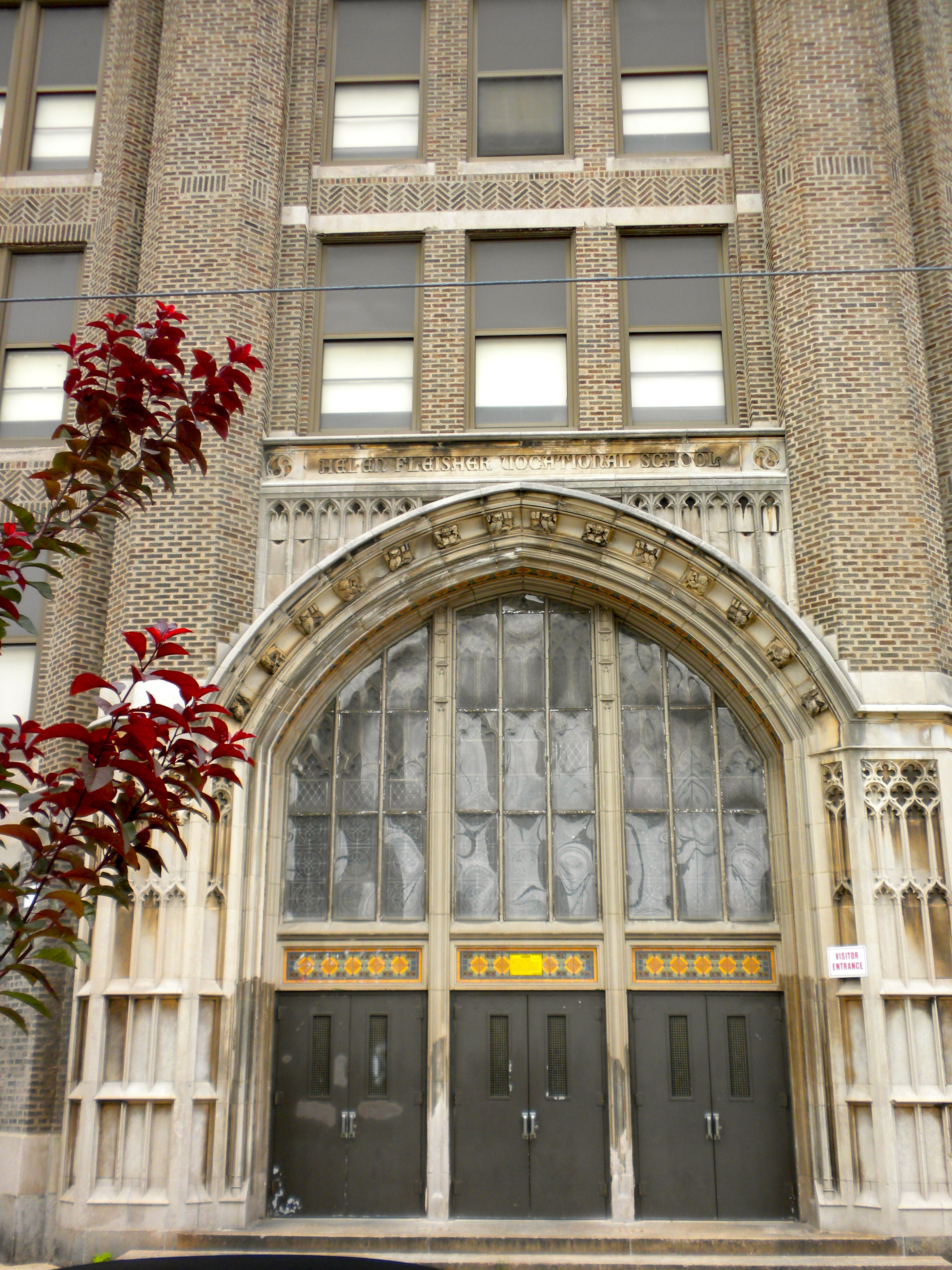 Helen Fleischer Vocational School on the NRHP since December 4, 1986. At 540 North 13th St., Philadelphia, in the Callowhill neighborhood of North Philly